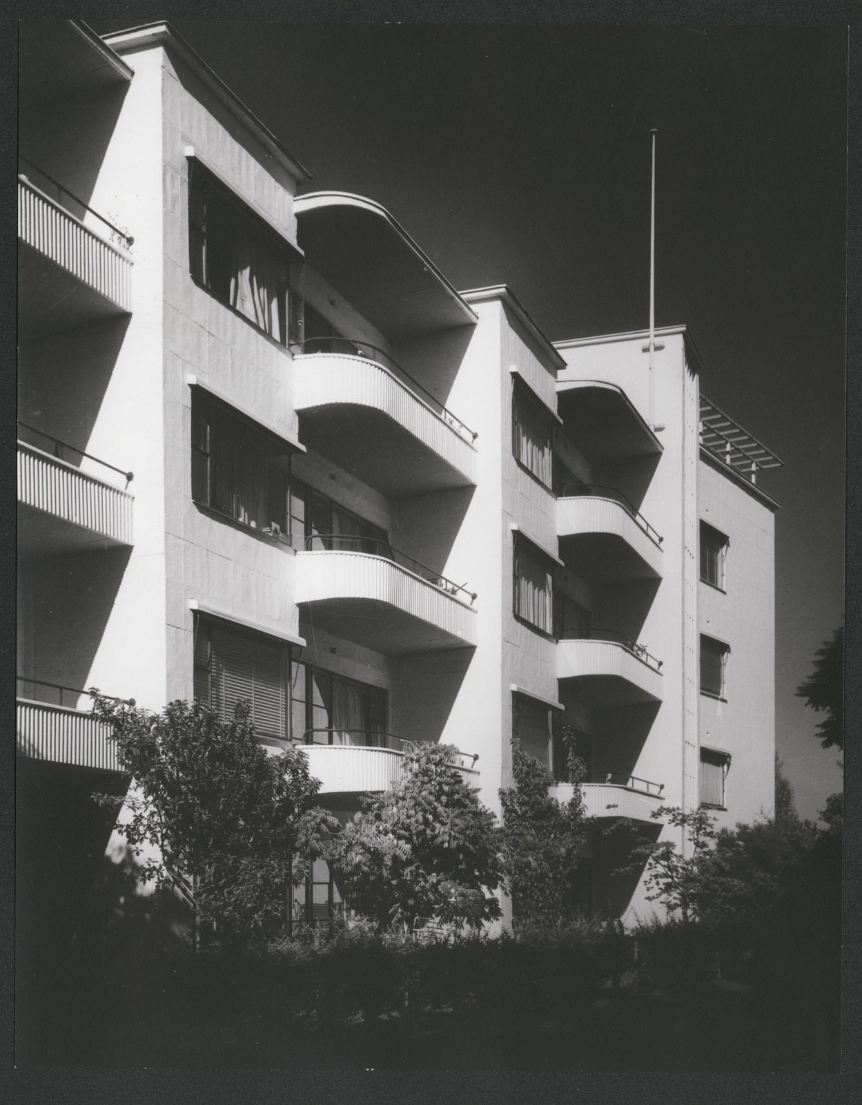 Newburn balconies from east 1951, Wolfgang Sievers, 1951, State Library Victoria